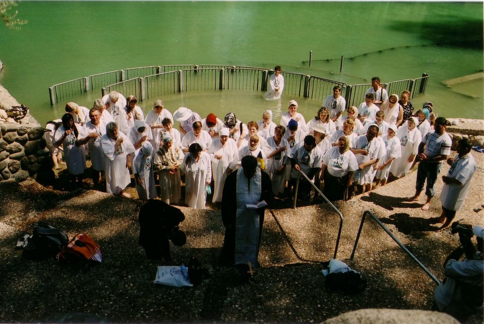 Yardenit Baptizing Site, Jordan River